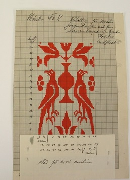 Damask pattern from the 1920s by the Swedish damask weaver Carl Widlund (1887-1968).